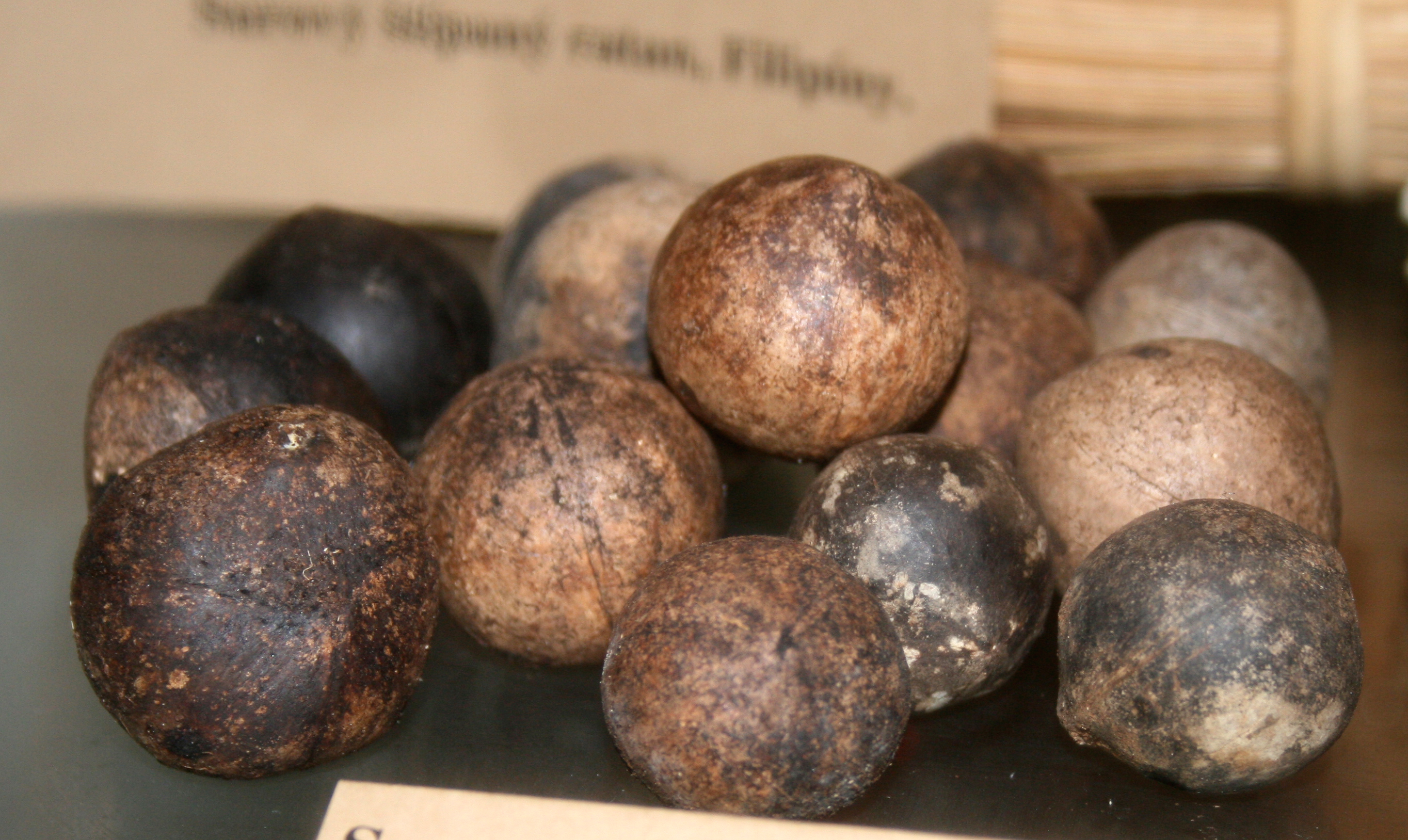 Seeds of palm Jubaea chilensis semena palmy Jubaea chilensis Prague Botanic garden Date=January 2008 Author= Karelj Jubaea chilensis